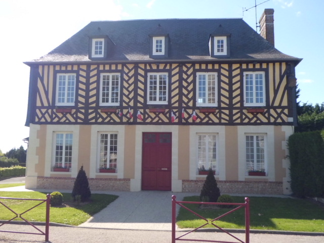 City Hall of Le Pin (Normandy)